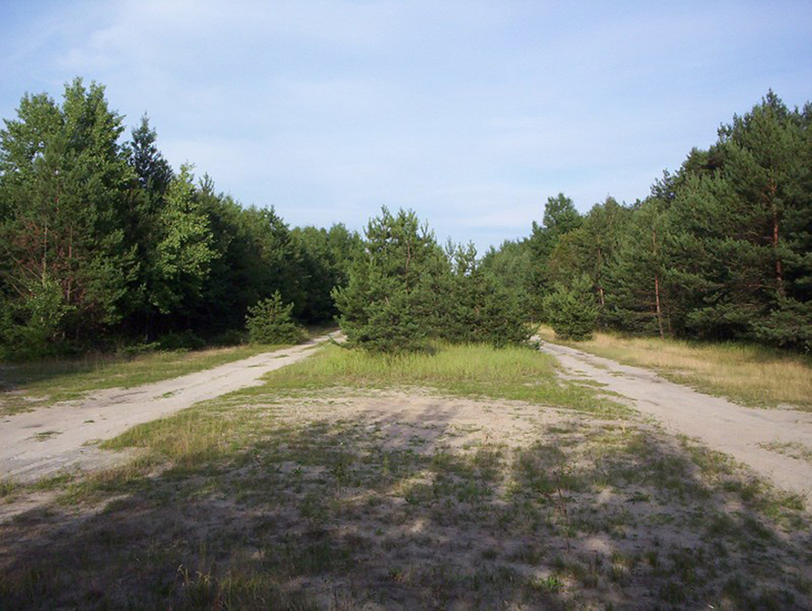 Two ways of forest road in Bolimów Forest (Masovia, Poland). The part of highway Olimpijka, that was never finished.